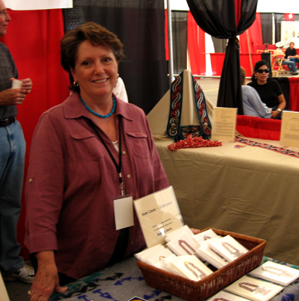 Martha Berry, enrolled Cherokee Nation, beadwork artist, at the Cherokee Art Market, Catoosa, OK